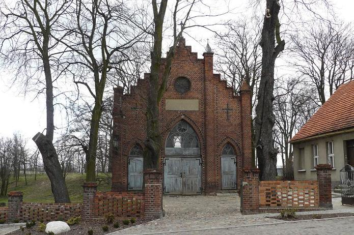 Cemetery Chapel in Smigiel.